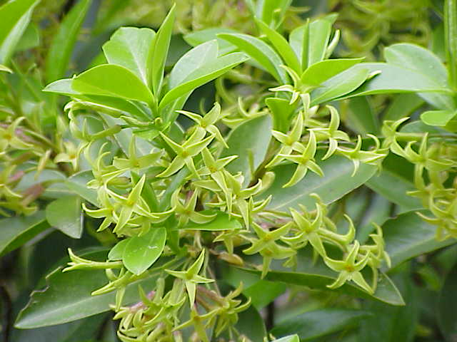 Species: Daphne pontica Family: Thymelaeaceae Image No. 2